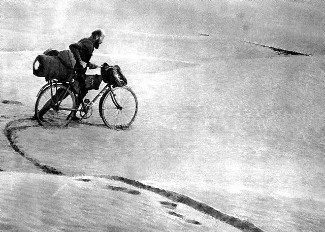 Kazimierz Nowak and his bicycle on a desert in Africa. The photo probably taken by Kazimierz Nowak (1897-1937, the author is on the photo; taken probably by a self-timer) during his trip through Africa - a Polish traveller, correspondent and photographer. Probably the first man in the world who crossed Africa alone from the North to the South and from the South to the North (from 1931 to 1936; on foot, by bicycle and canoe).